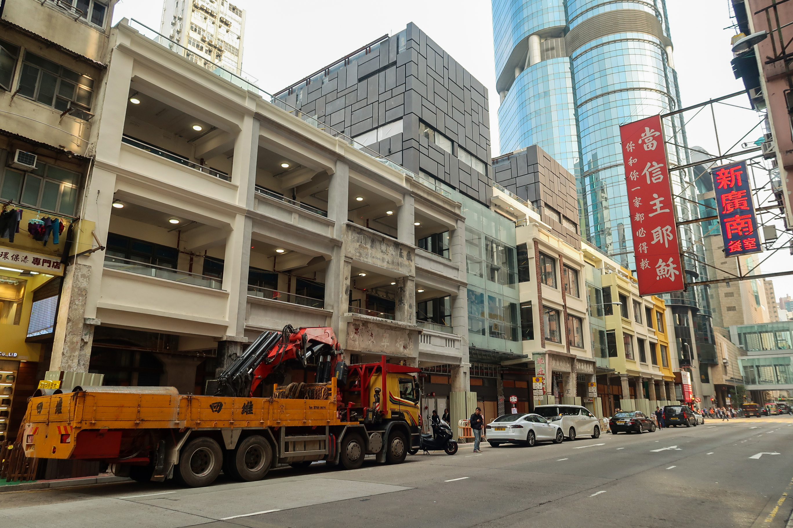 600-626 Shanghai Street URA project site